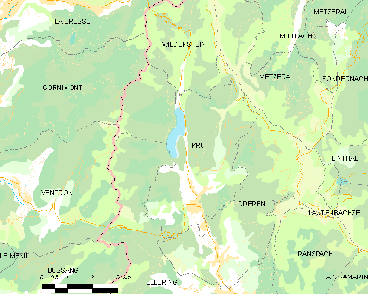 Map of French municipality